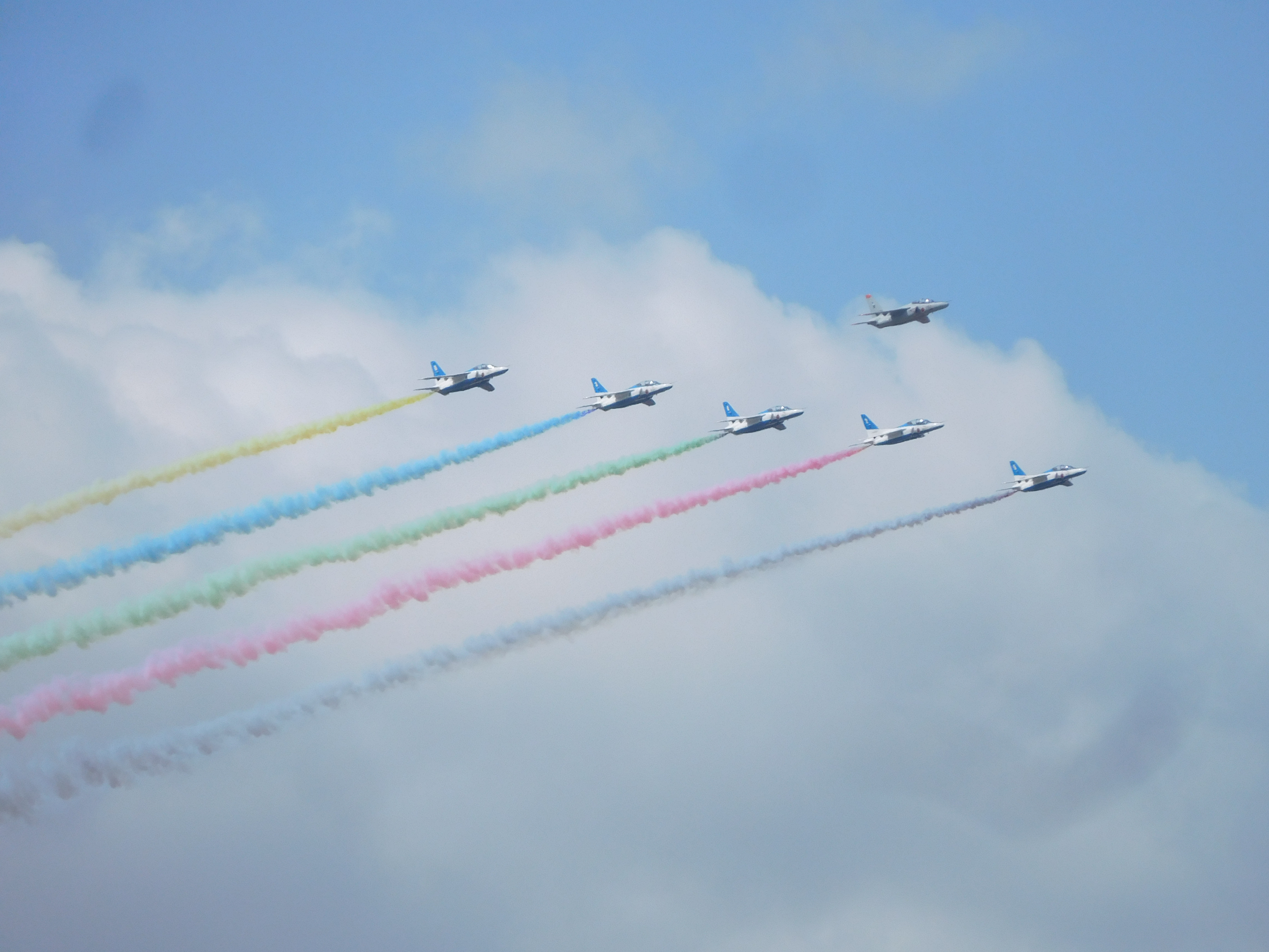 Blue Impulse are drawing lines with colored smoke at 32nd Olympic Games flame arrival ceremony. It was held in Higashimatsushima, Miyagi, Japan.